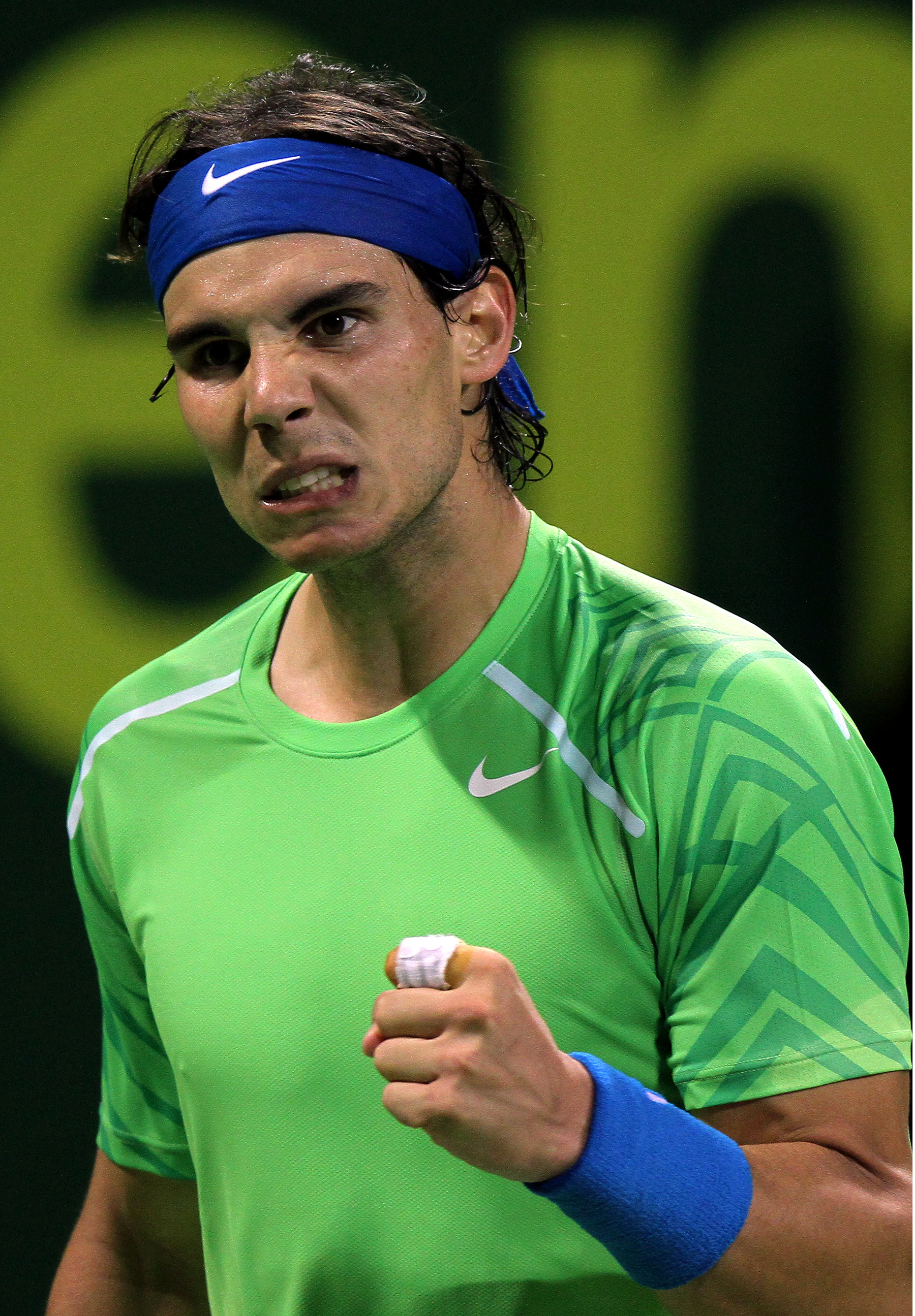 Spaniard tennis icon Rafael Nadal gestures during the Qatar Exxonmobil Open tennis tournament in Doha. Pic by Vinod Divakaran